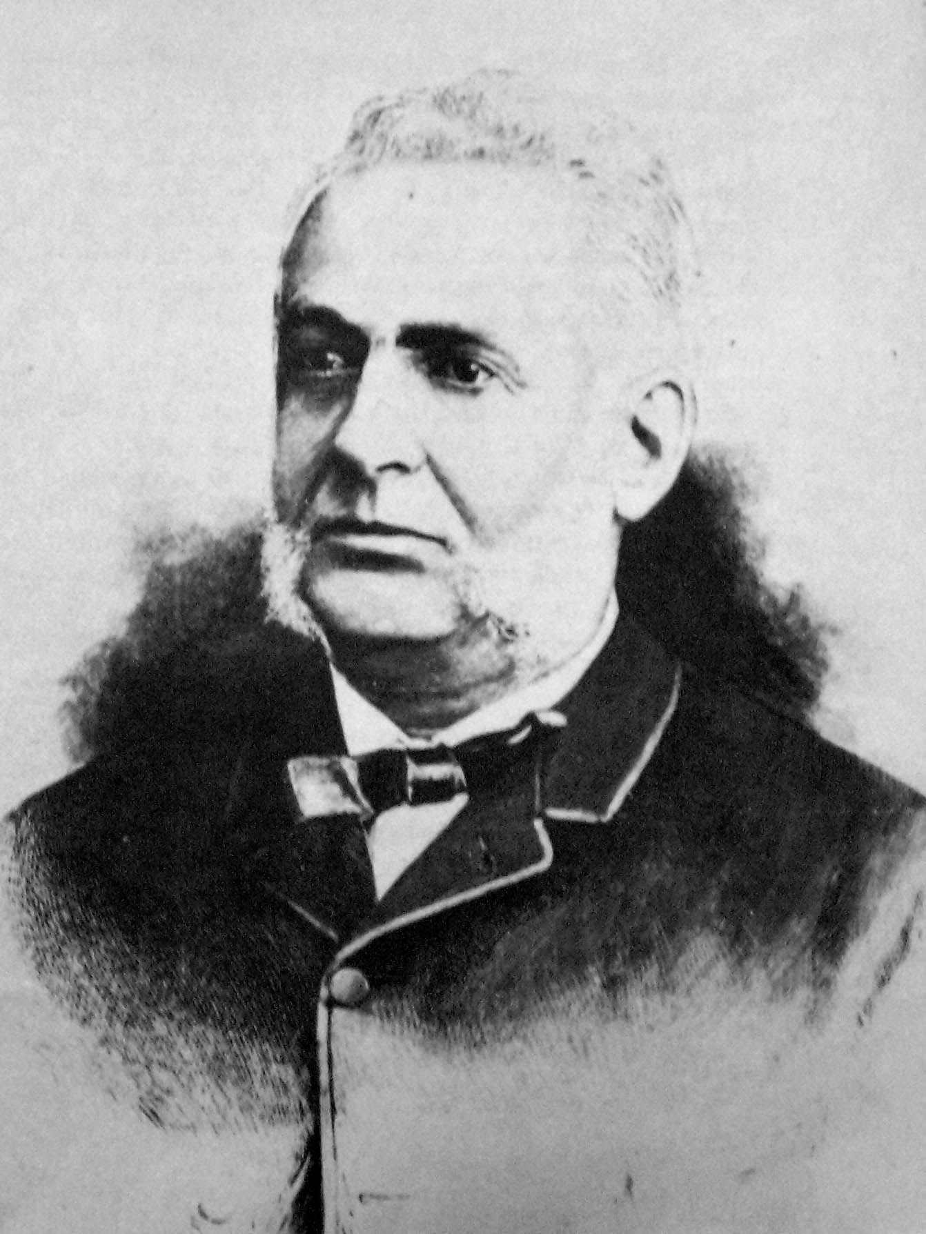 Argentine engineer Eduardo Madero.